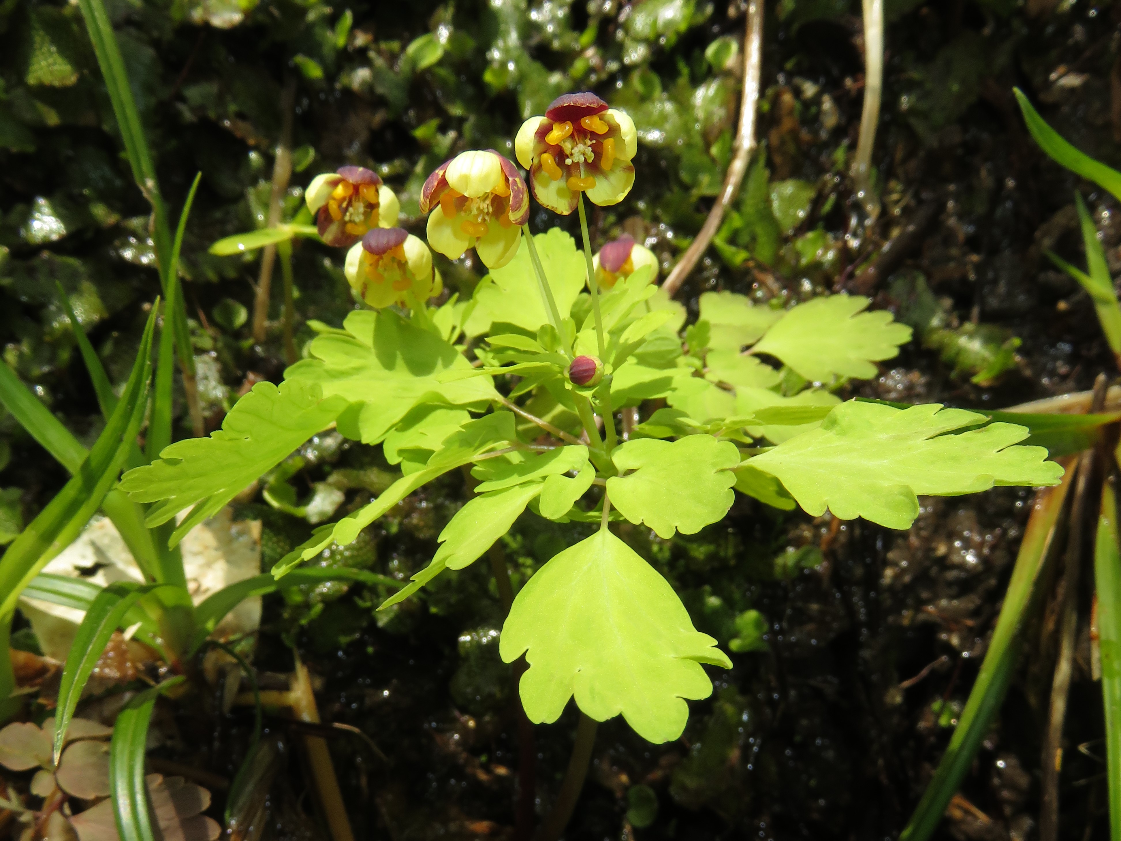 Dichocarpum nipponicum, Aizu area, Fukushima pref., Japan